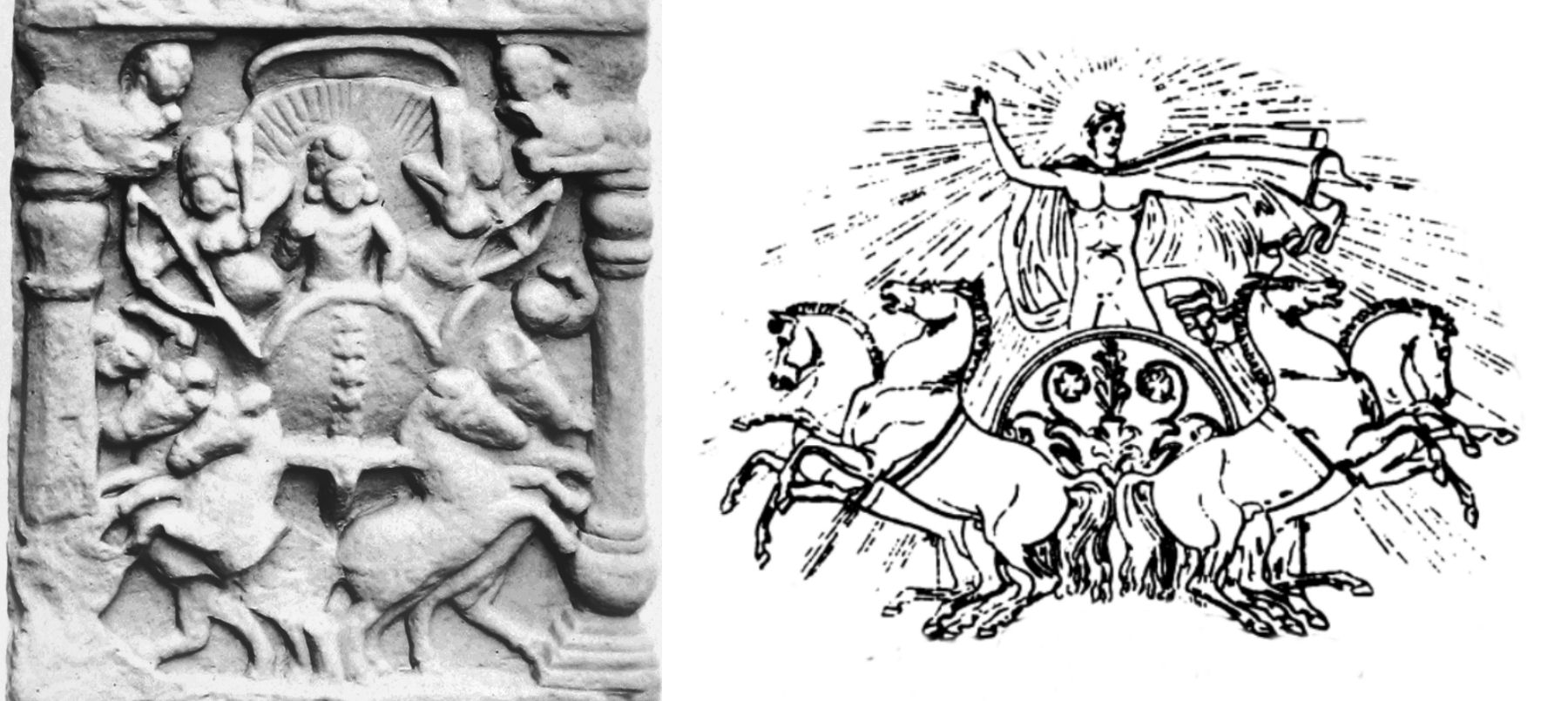 Bodh Gaya quadriga relief of Surya and Classical example of Phoebus Apollo on quadriga. A coin of Plato of Bactria (145-130 BCE), Ai Khanoum.